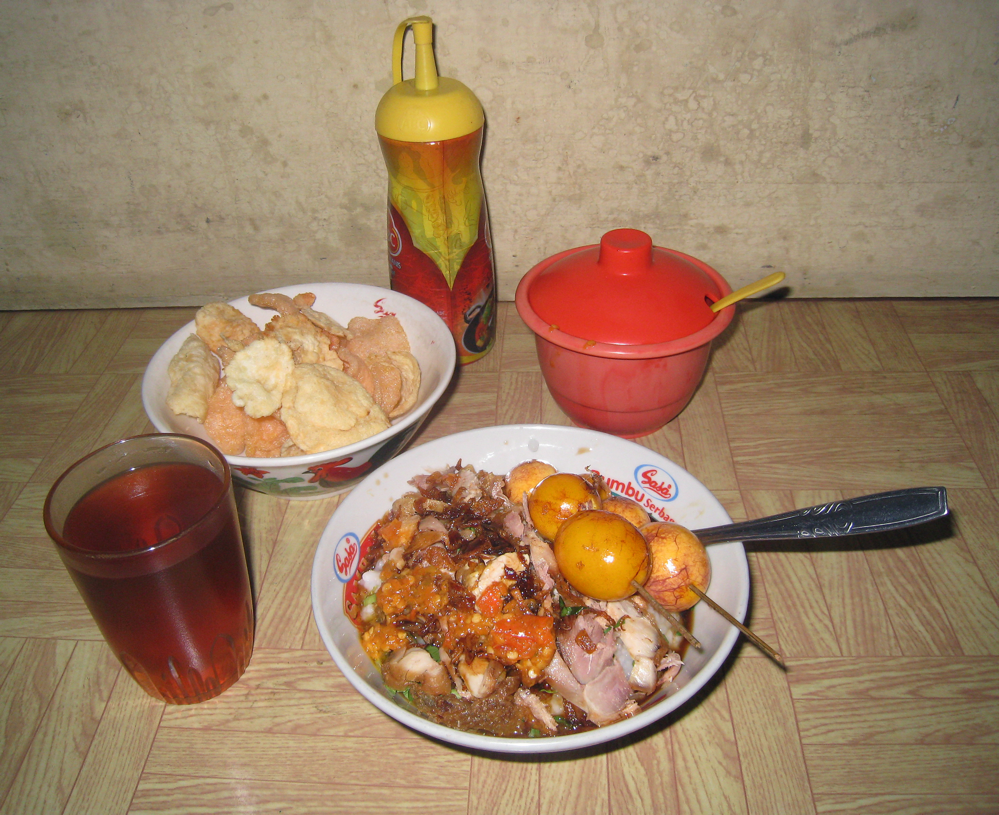 A Bubur Ayam (chicken rice congee) breakfast served with uritan (premature chicken eggs) satay, krupuk and emping, sweet soy sauce, sambal and tea, sold in a warung for breakfast in Palmerah, Jakarta, Indonesia.